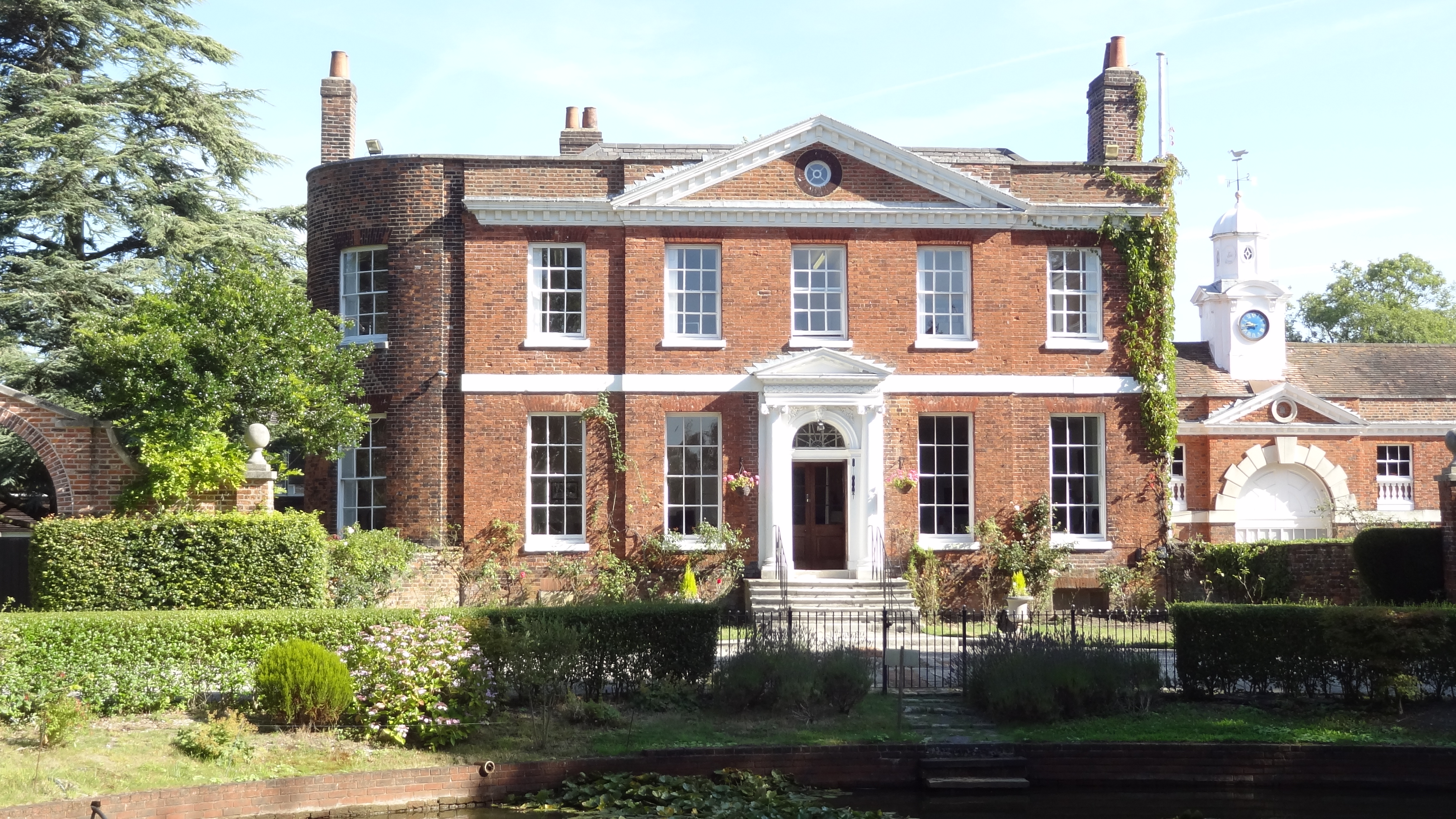 St Martha's Convent, Grade II* listed building in Monken Hadley, Barnet, London